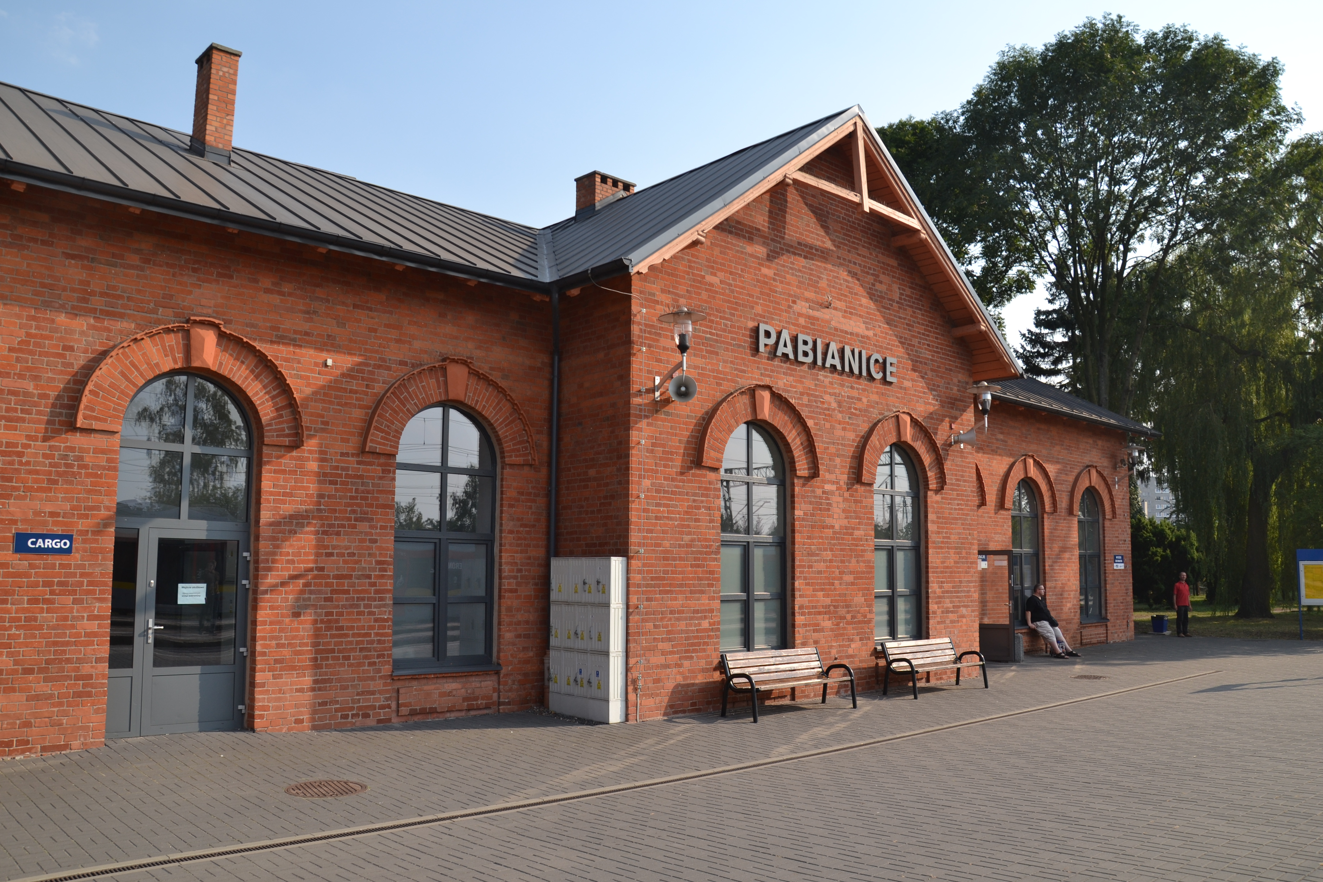 Widok dworca w Pabianicach od strony miasta This photo was taken during Railway Wikiexpedition 2015 set up by Wikimedia Polska Association in cooperation with Fundacja Grupy PKP. You can see all photographs in category Wikiekspedycja kolejowa 2015.